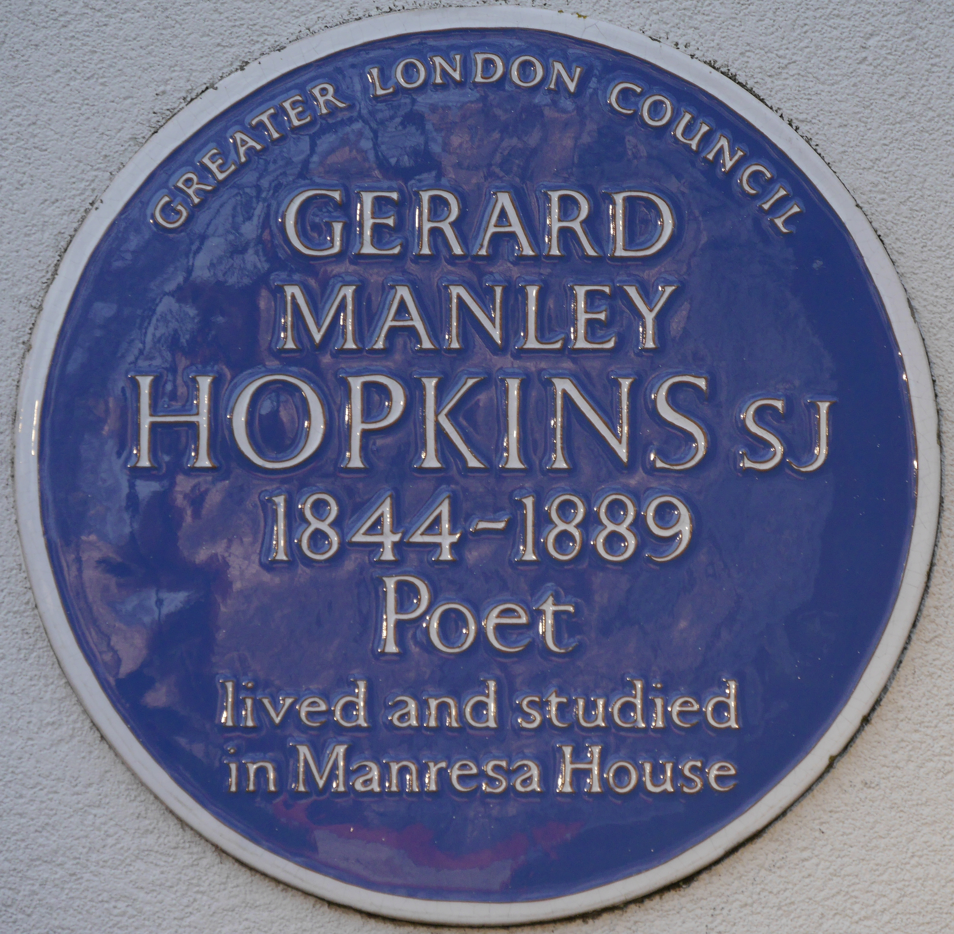 GerardManleyHopkinsBluePlaque